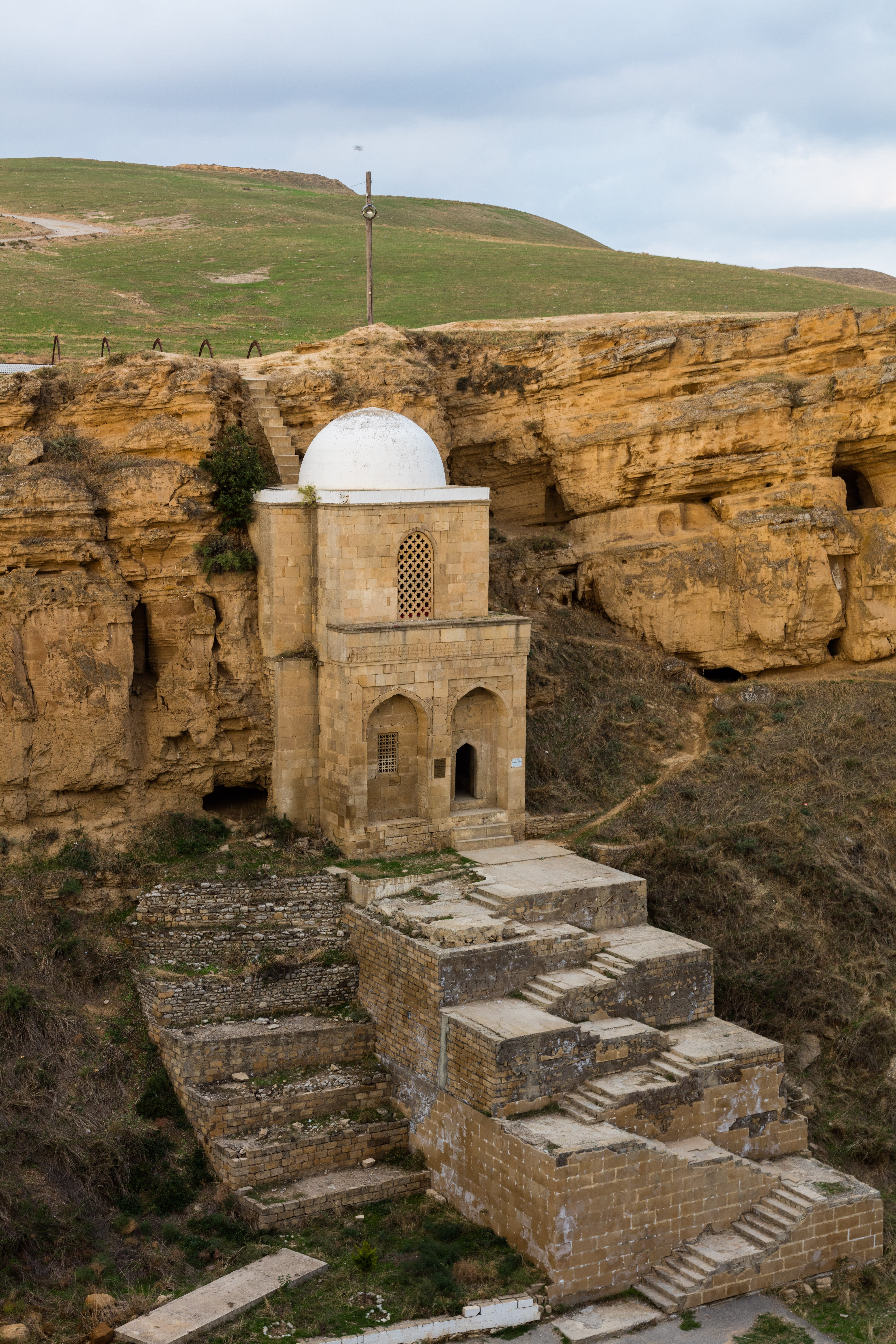 Diri Baba mausoleum, Qobustan, Azerbaijan